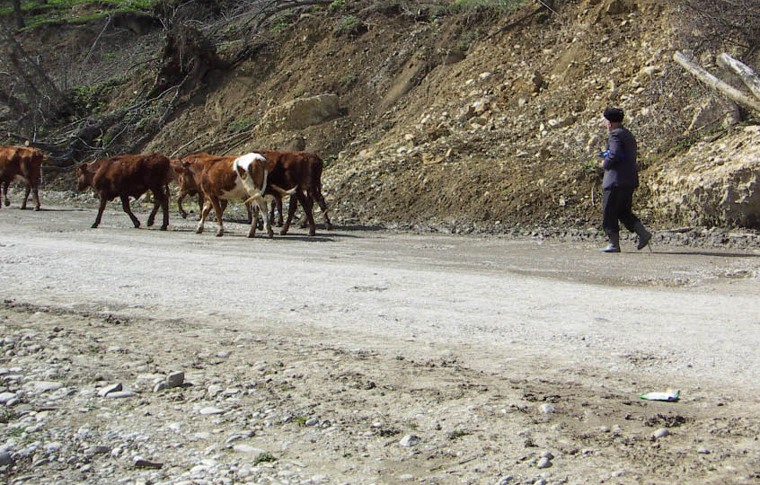 Old man taking his cattle to a pasture in Mountains, Ingushetia, Russia